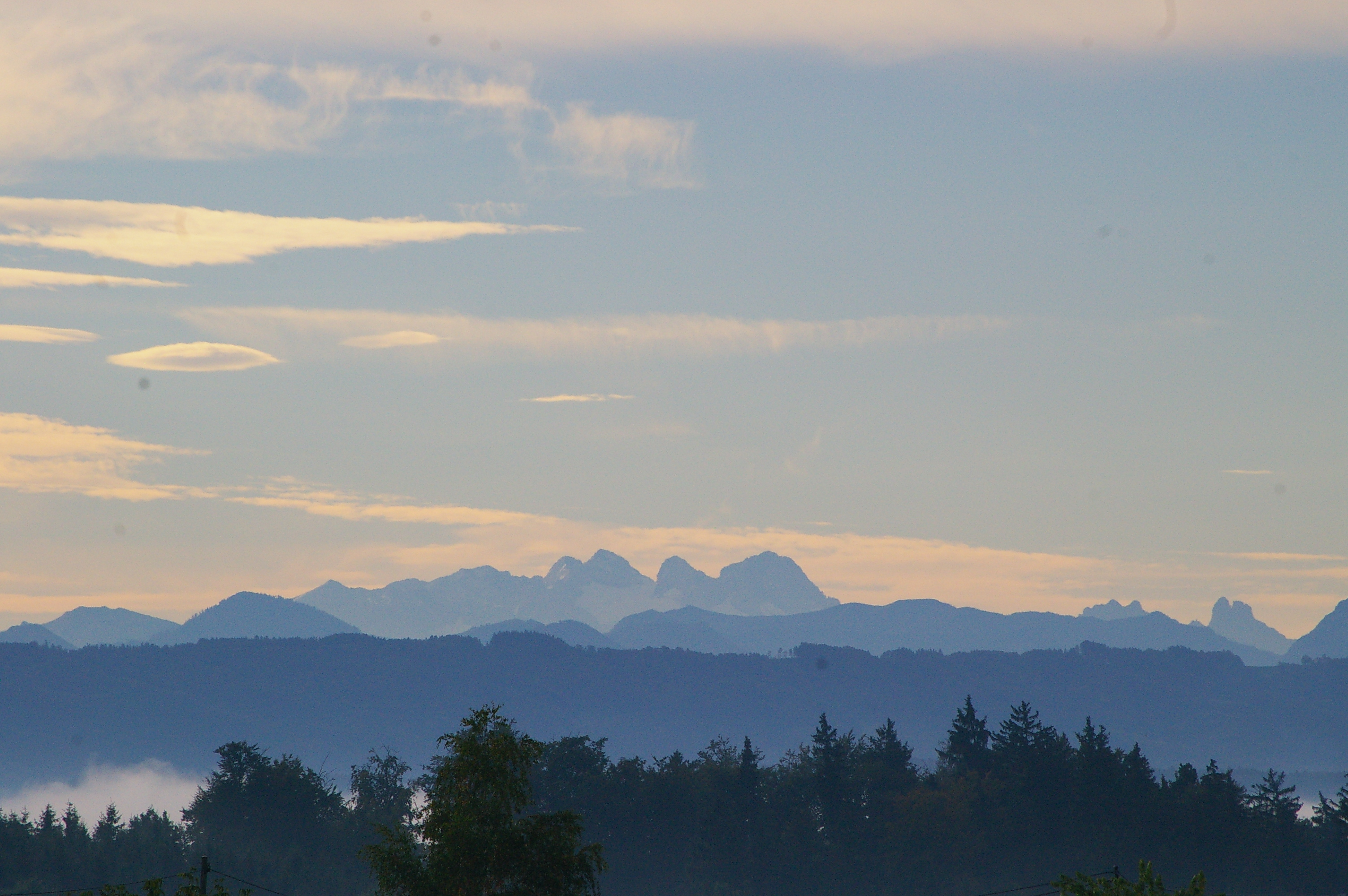 Dachstein, seen from the Innviertel looking south